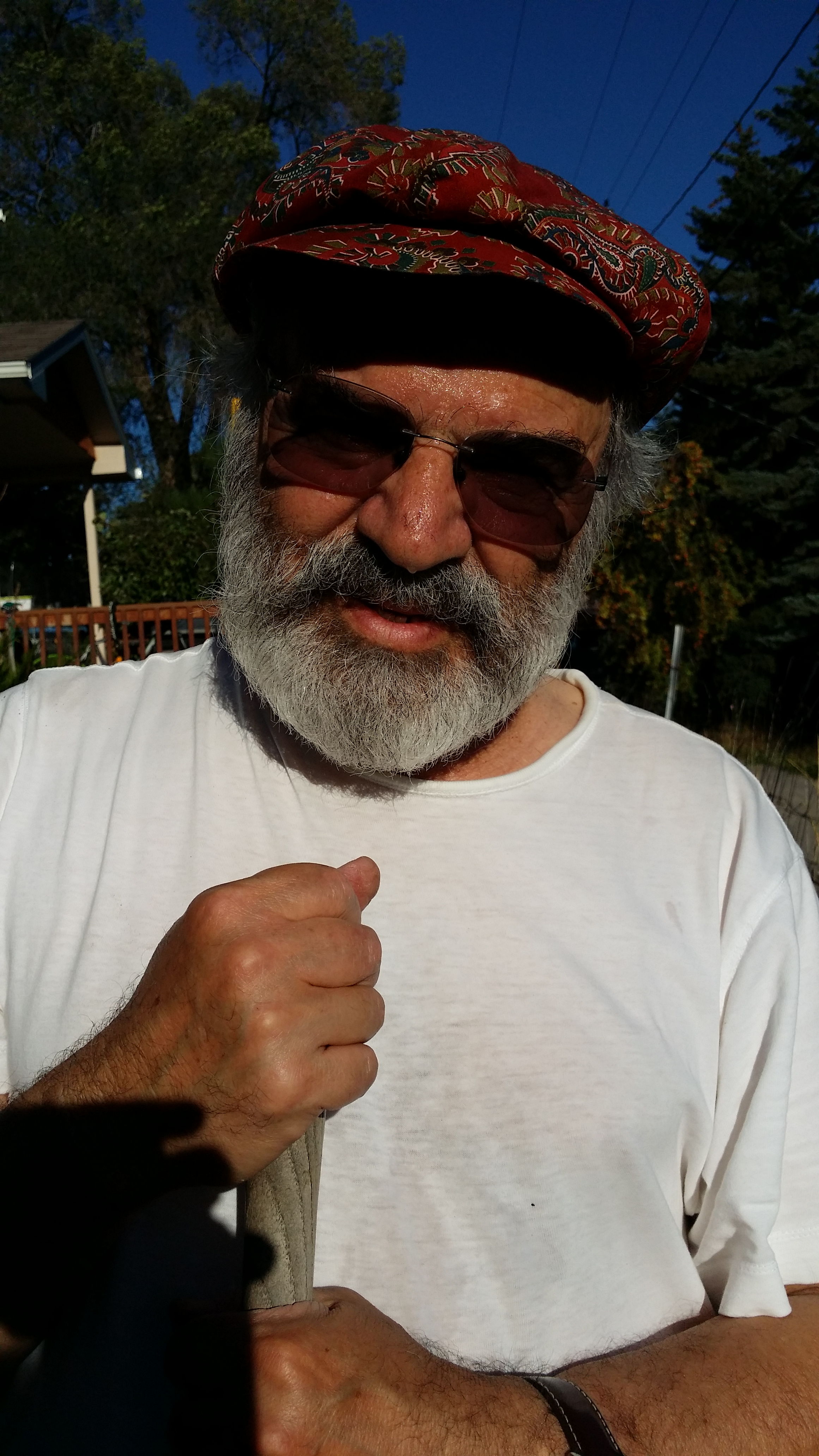 Hamid Naficy digging in the archives